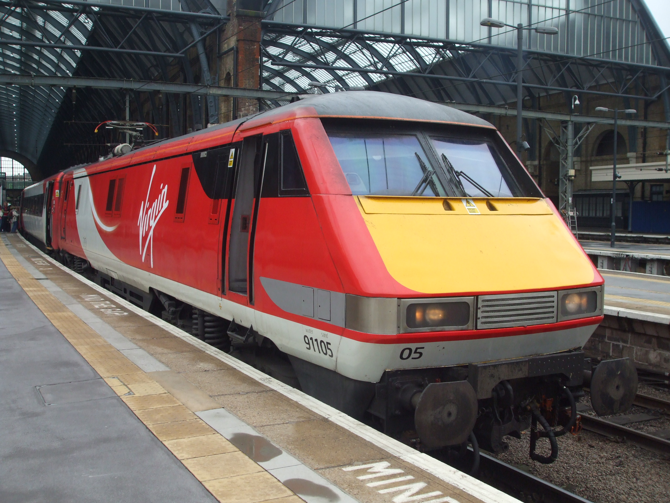 Class 91 loco 91105 in Virgin Trains East Coast livery at London King's Cross in July 2015